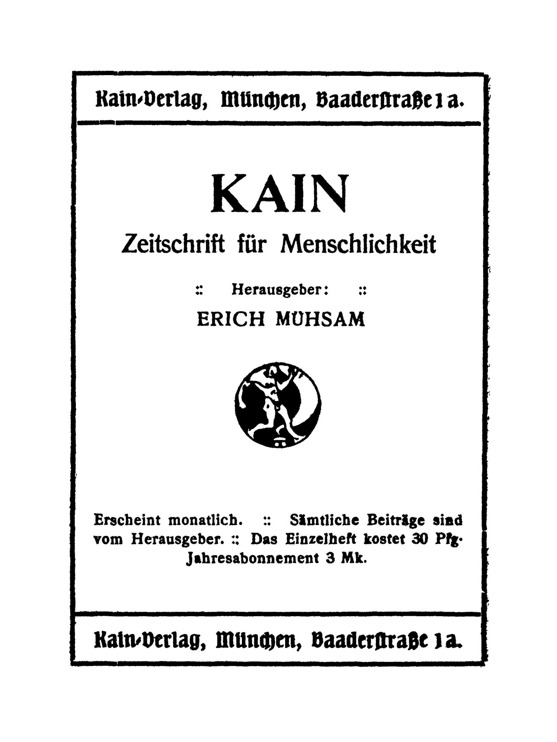 This is a scan of the historical document: Kain-Kalender für das Jahr 1912